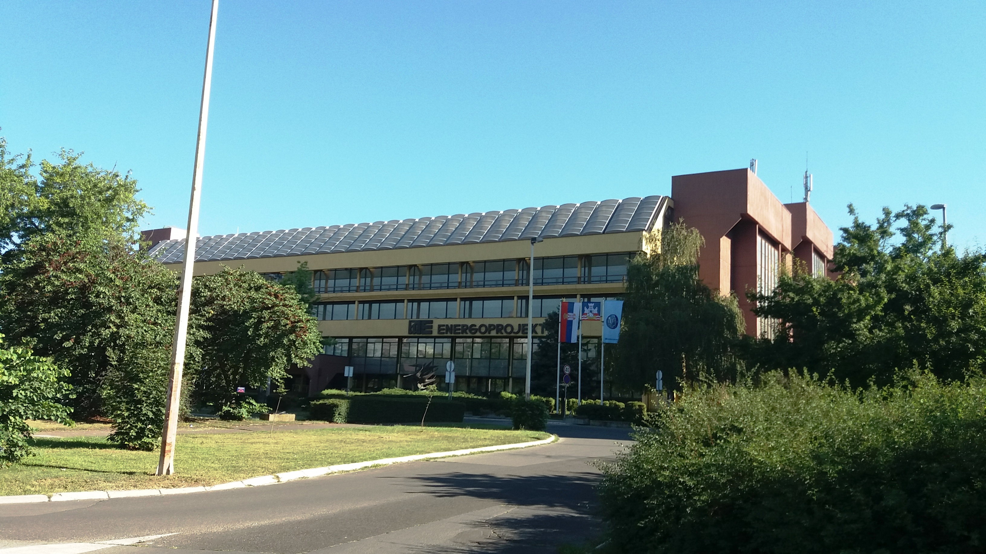 "Energoprojekt" building, Block 11a, New Belgrade